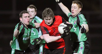 Action from the 2009 Dr. McKenna Cup semi-final between Queens University Belfast (green) and Down (red)